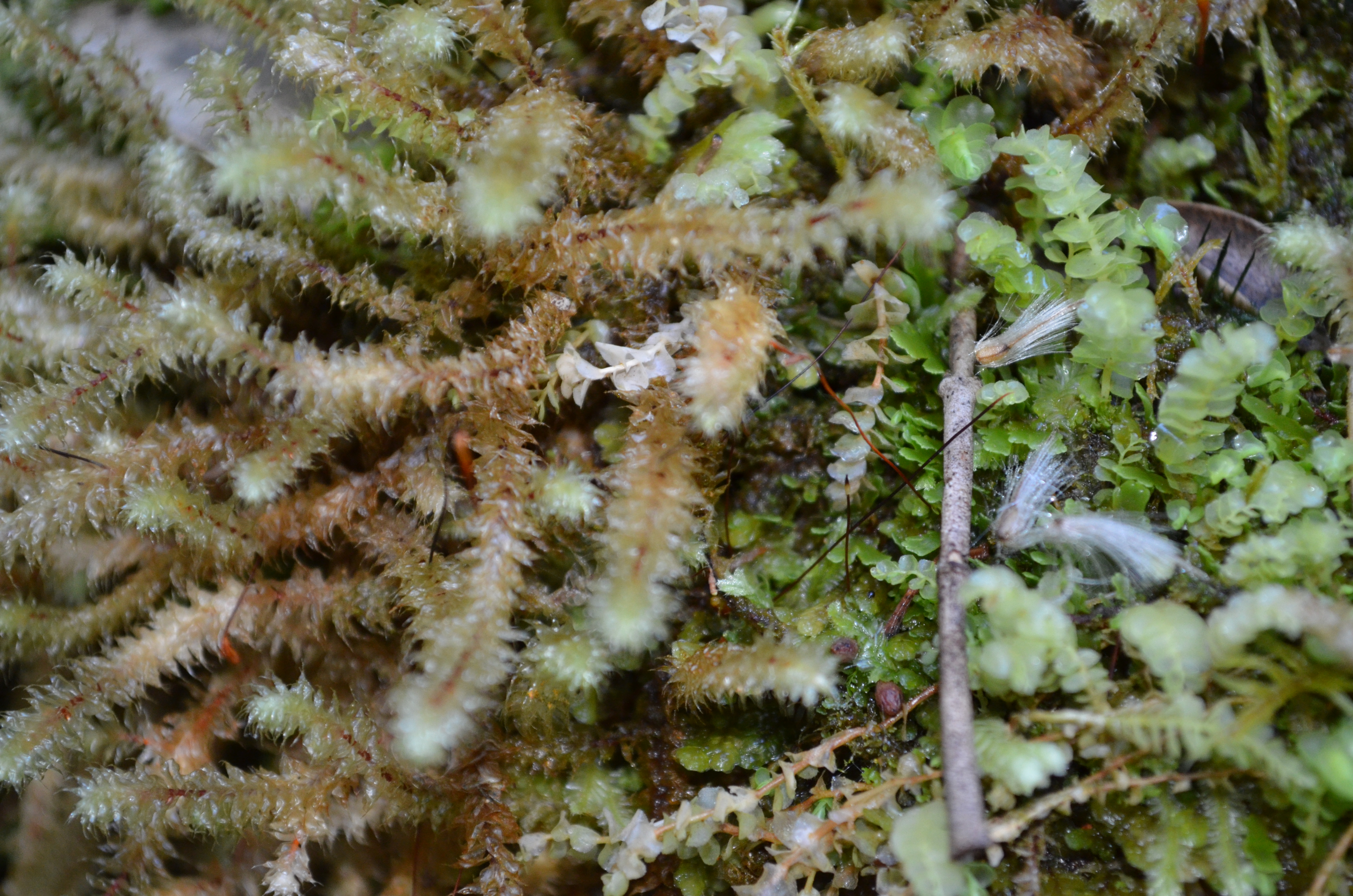 Moss, Ptychomnion aciculare Spotted in Mt. Field